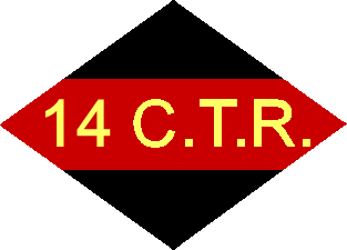 Unit patch insignia for the 14th Canadian Army Tank Regiment of WWII